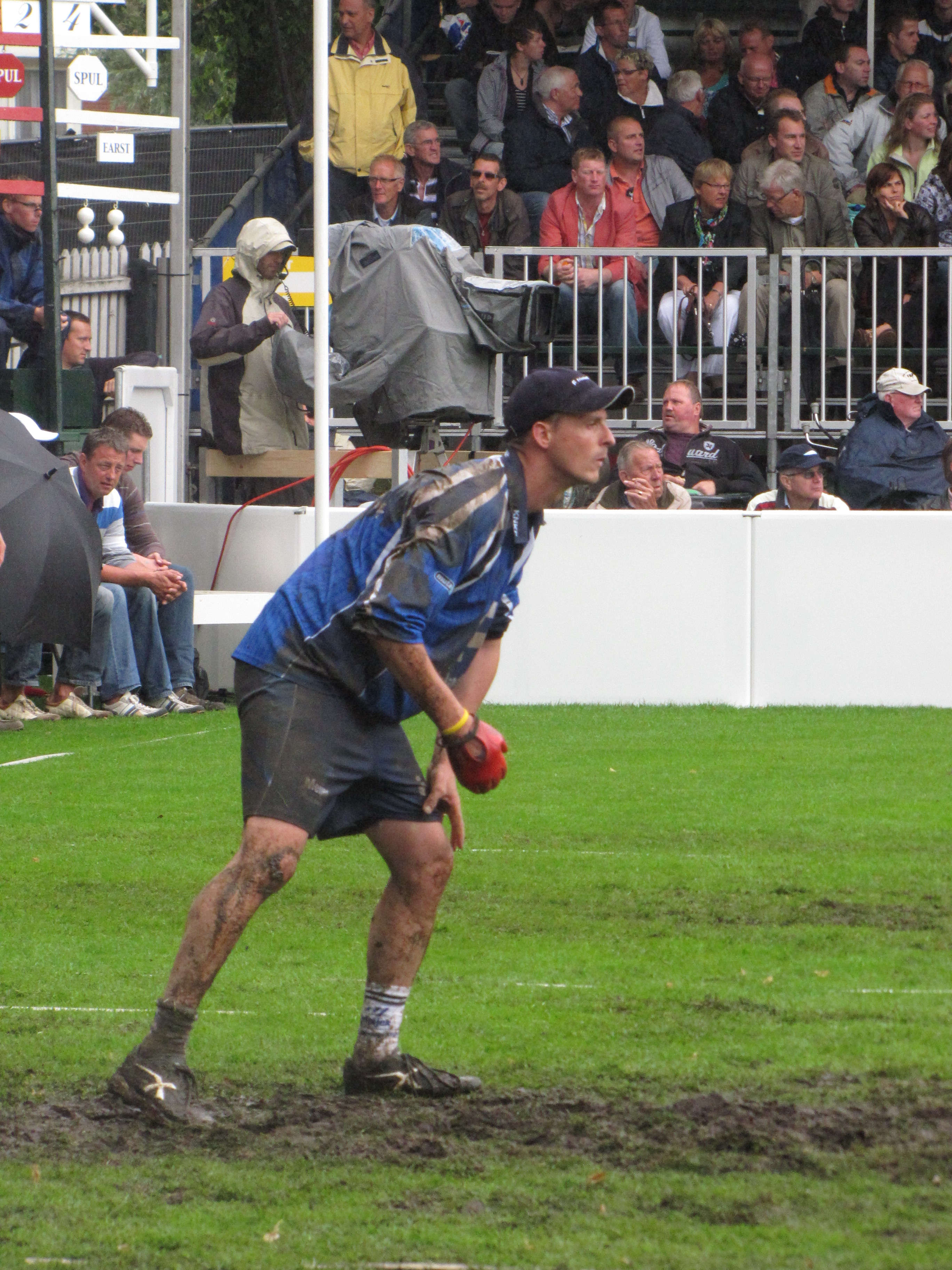 Folkert van der Wei during the PC of 2010